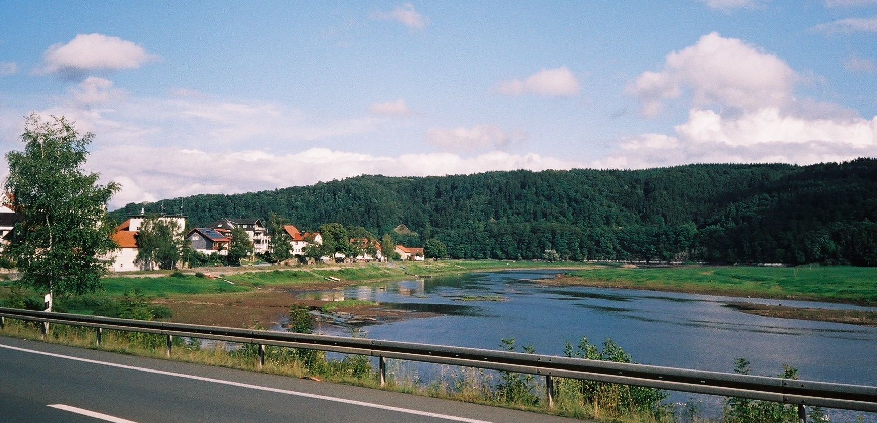 Edersee at Vöhl-Herzhausen, Hesse, Germany